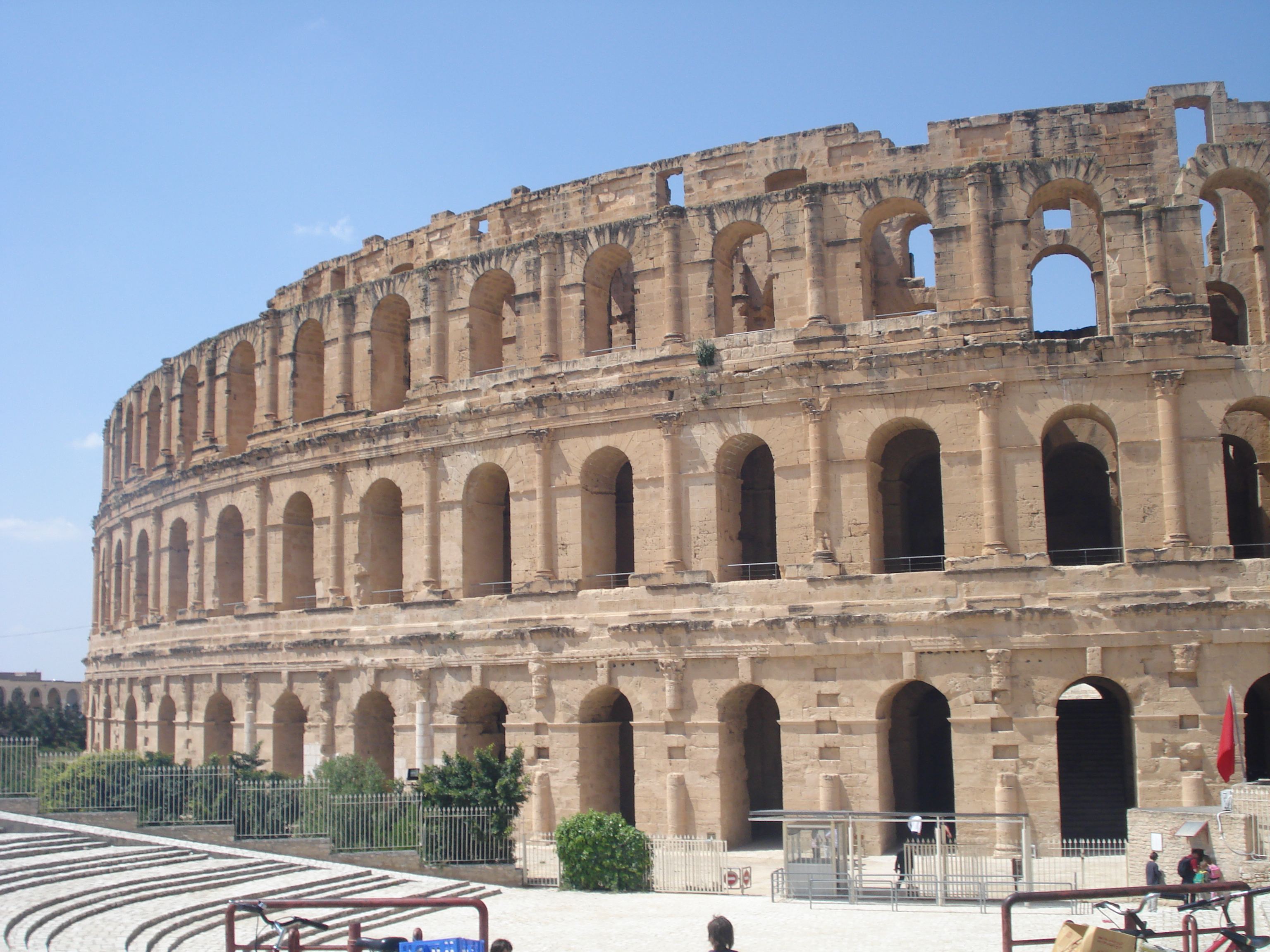 Amphitheatre of El Jem in Tunisia